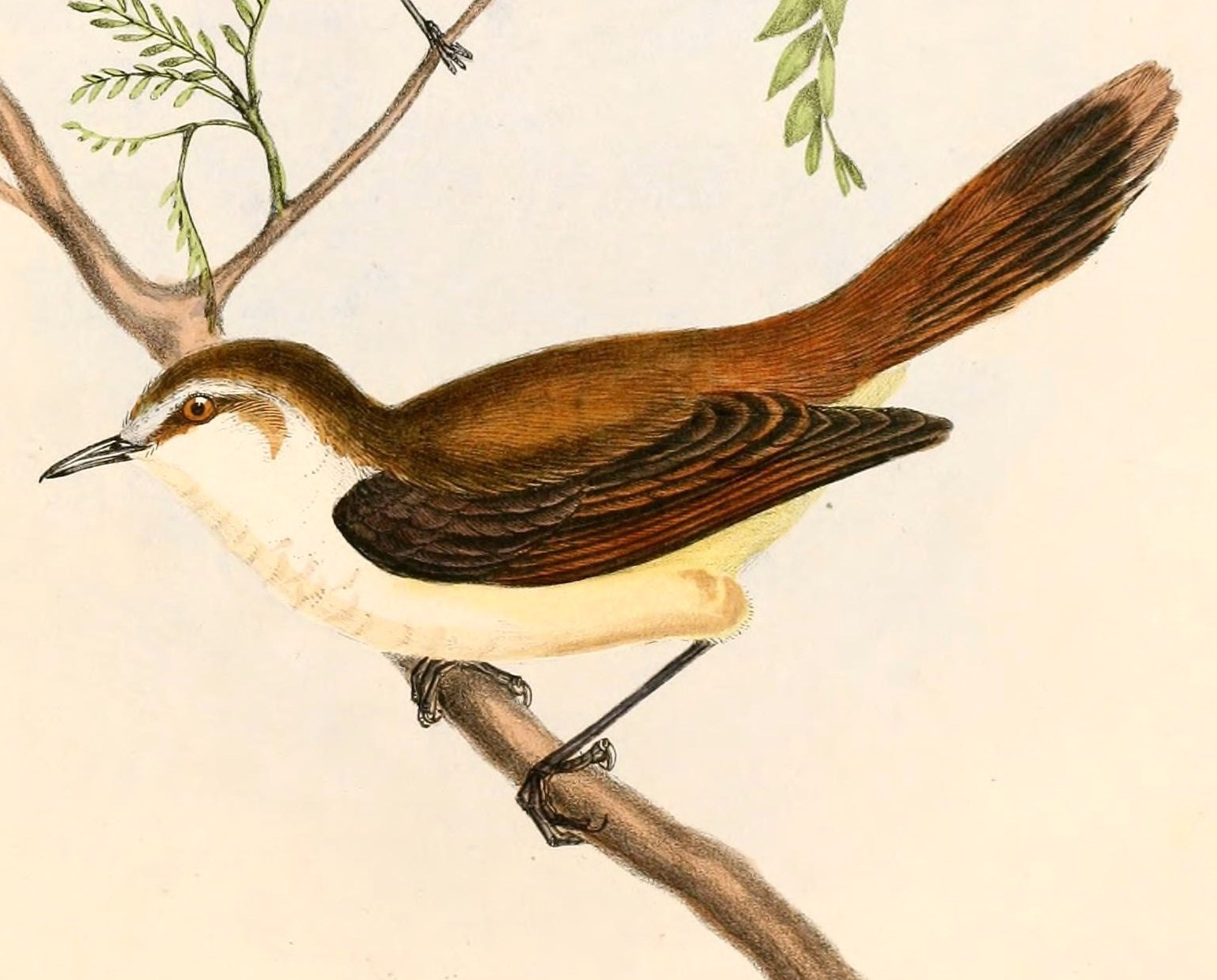 Gerygone albofrontata (Chatham Gerygone)